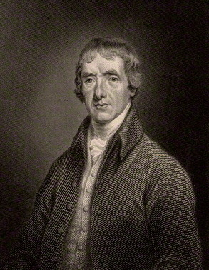 John Aikin (1747-1822), Physician and author, notable of Evenings at Home, translated into numerous european languages, classed as children's literature.